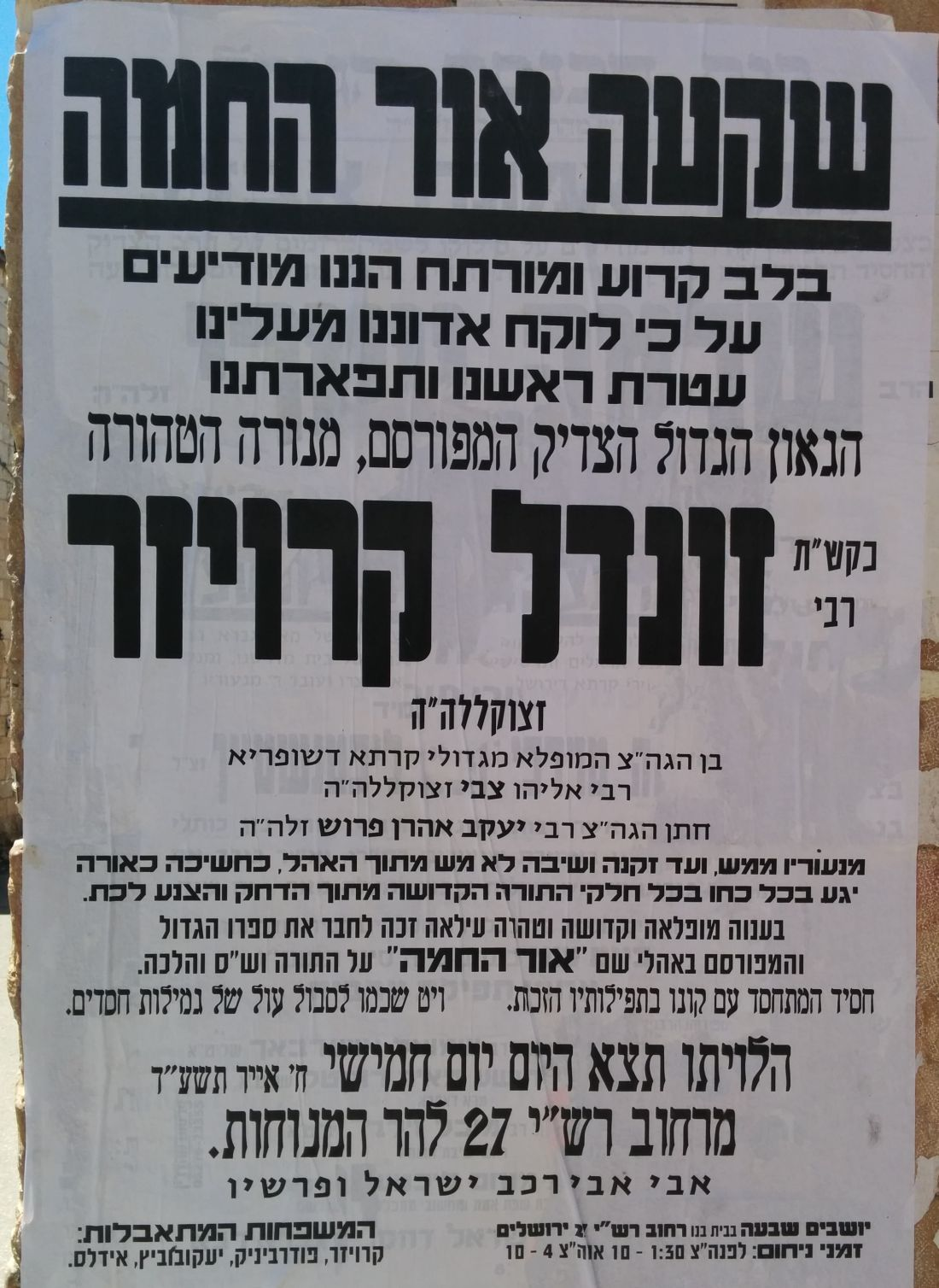 Rabbi Zundel Kroizer from Jerusalem - Mourning poster